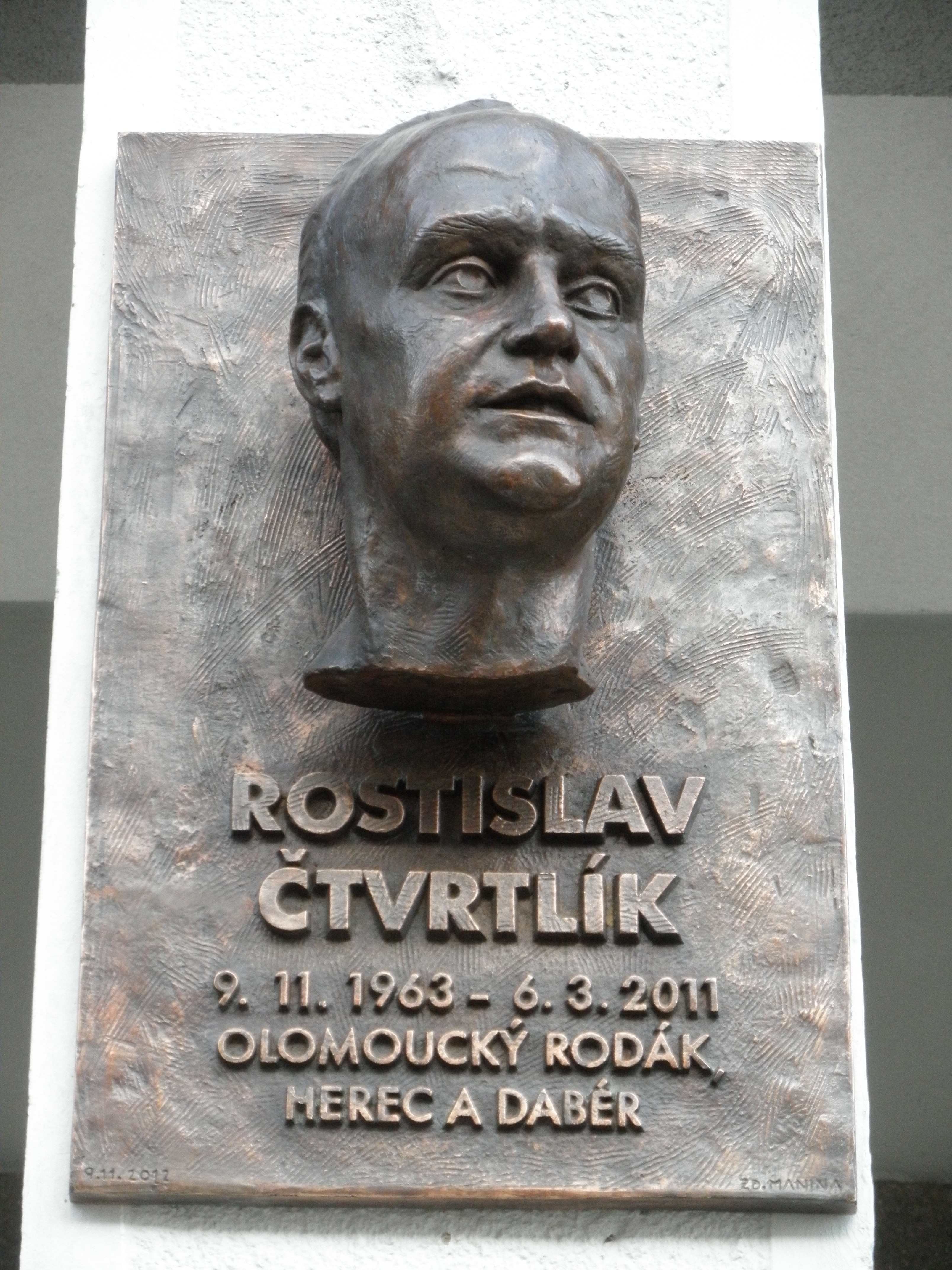 Memorial plaque and a a bust of Rostislav Čtvrtlík at 55 Masarykova street in Olomouc, the Czech Republic. The bust was made by Zdeněk Manina and the bust was unveiled at 9 November 2012. There is written on the plaque in the Czech language: Rostislav Čtvrtlík 9. 11. 1963 – 6. 3. 2011 a native of Olomouc, an actor and a voice actor.